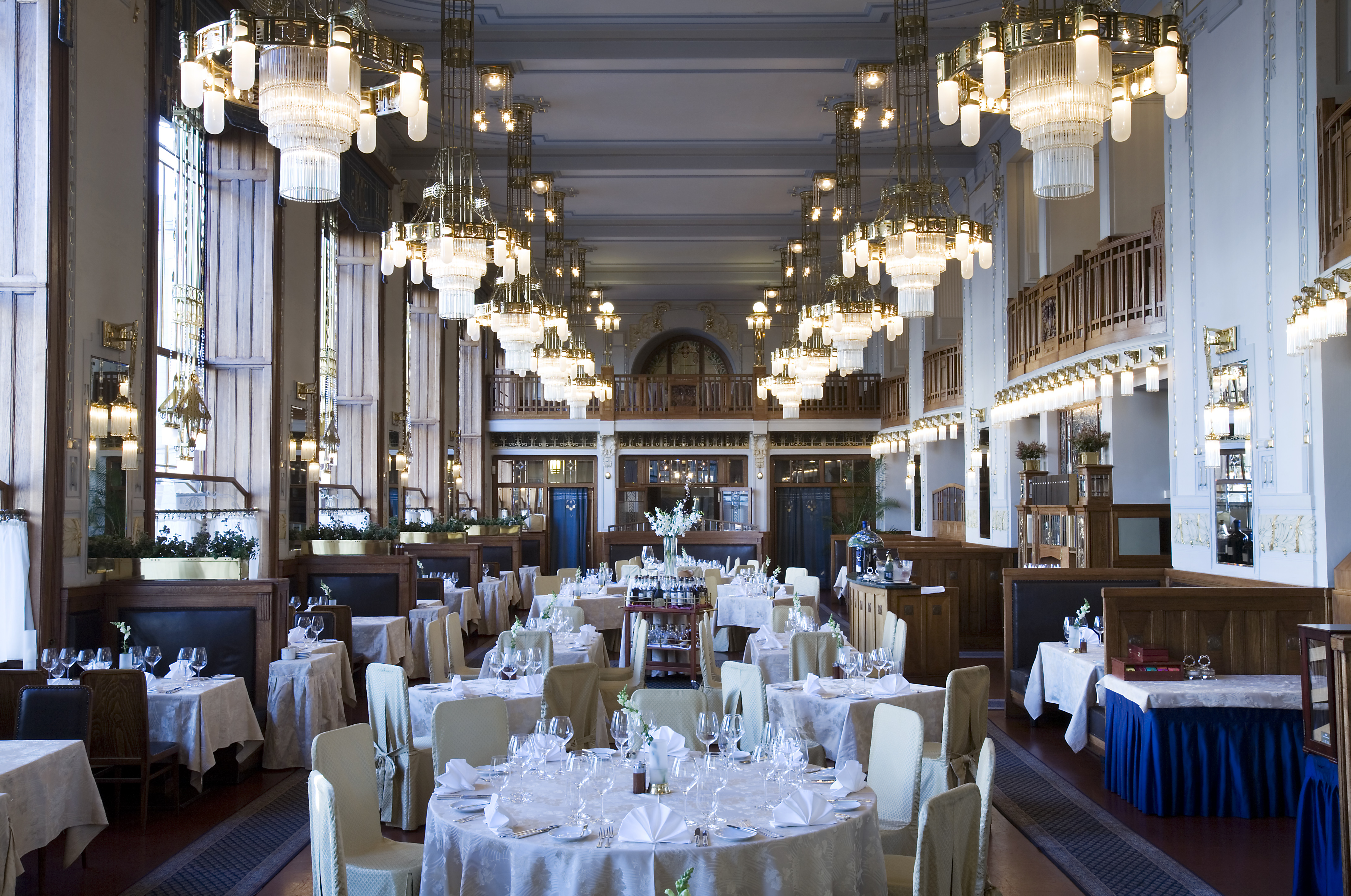 Obecni Dum Restaurant, Prague